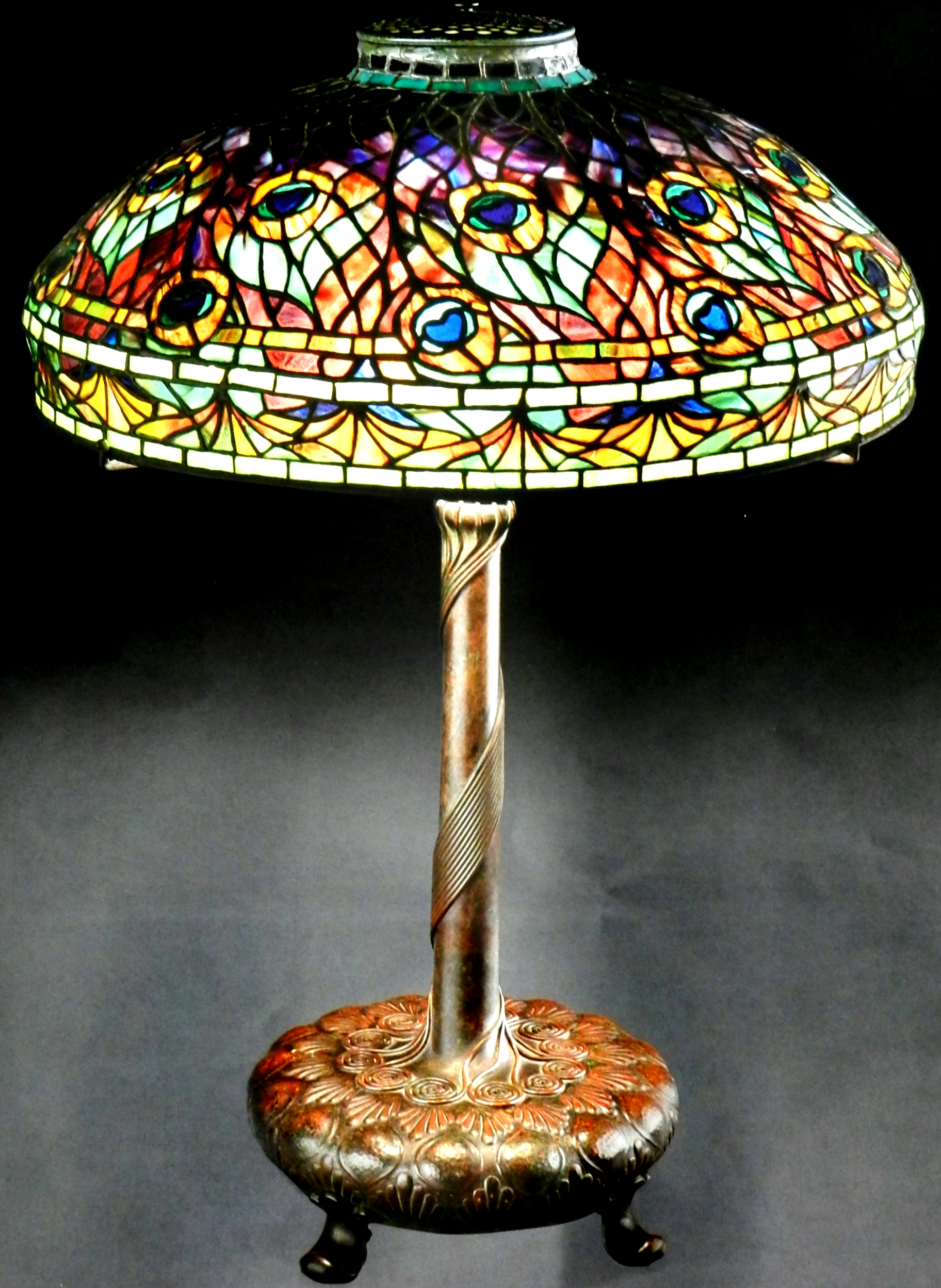 Lamp produced by Tiffany in 1905